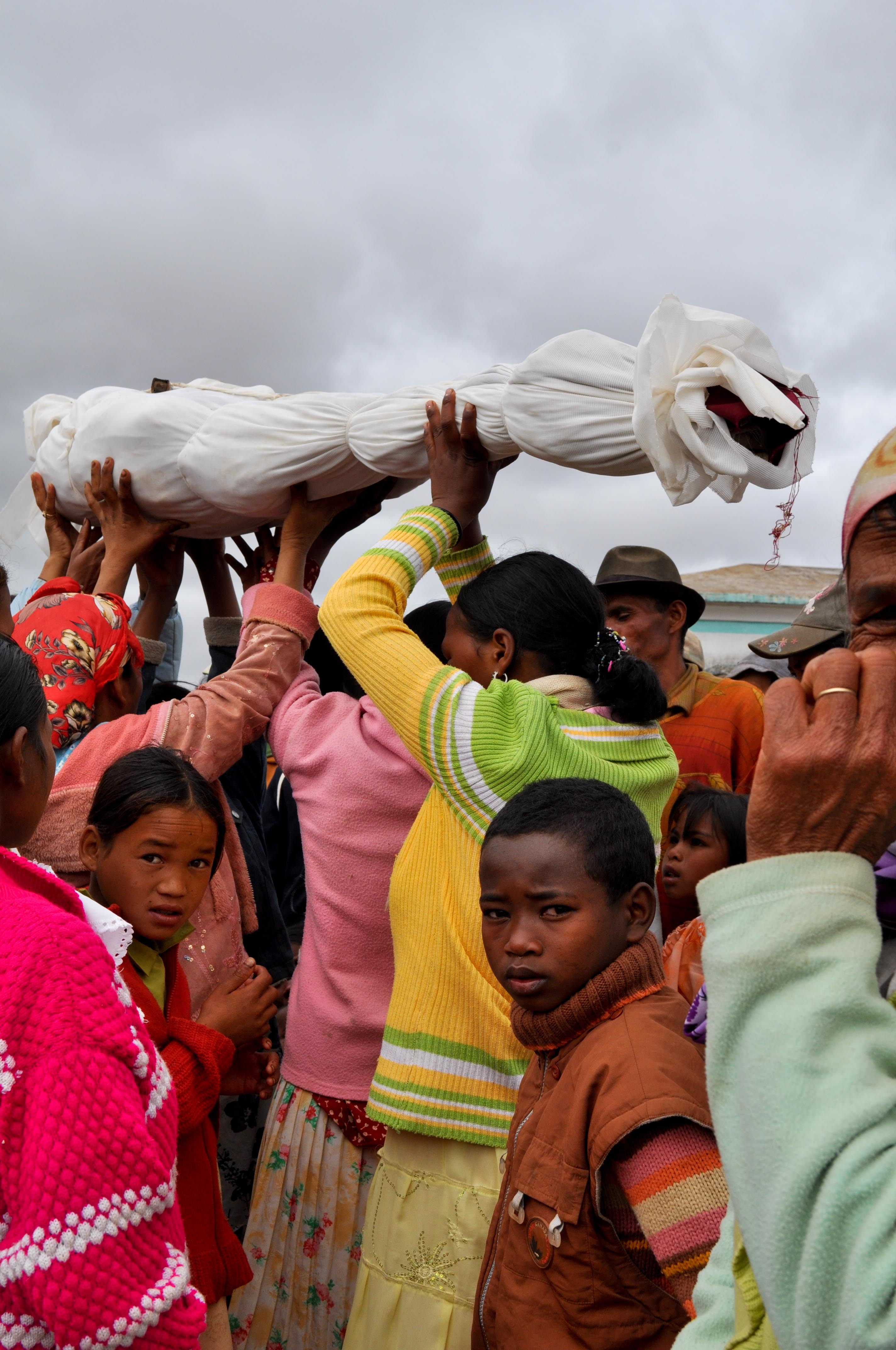 Famadihana reburial turning of the bones in Madagascar